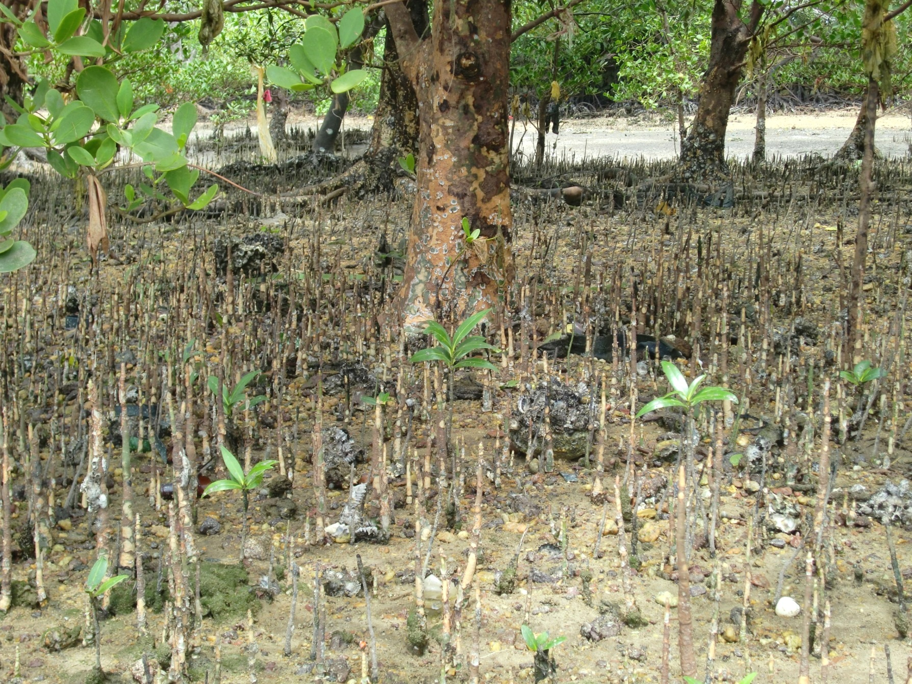 respiratory root of Sonneratia sp. at the Strait of Malacca Malaysia